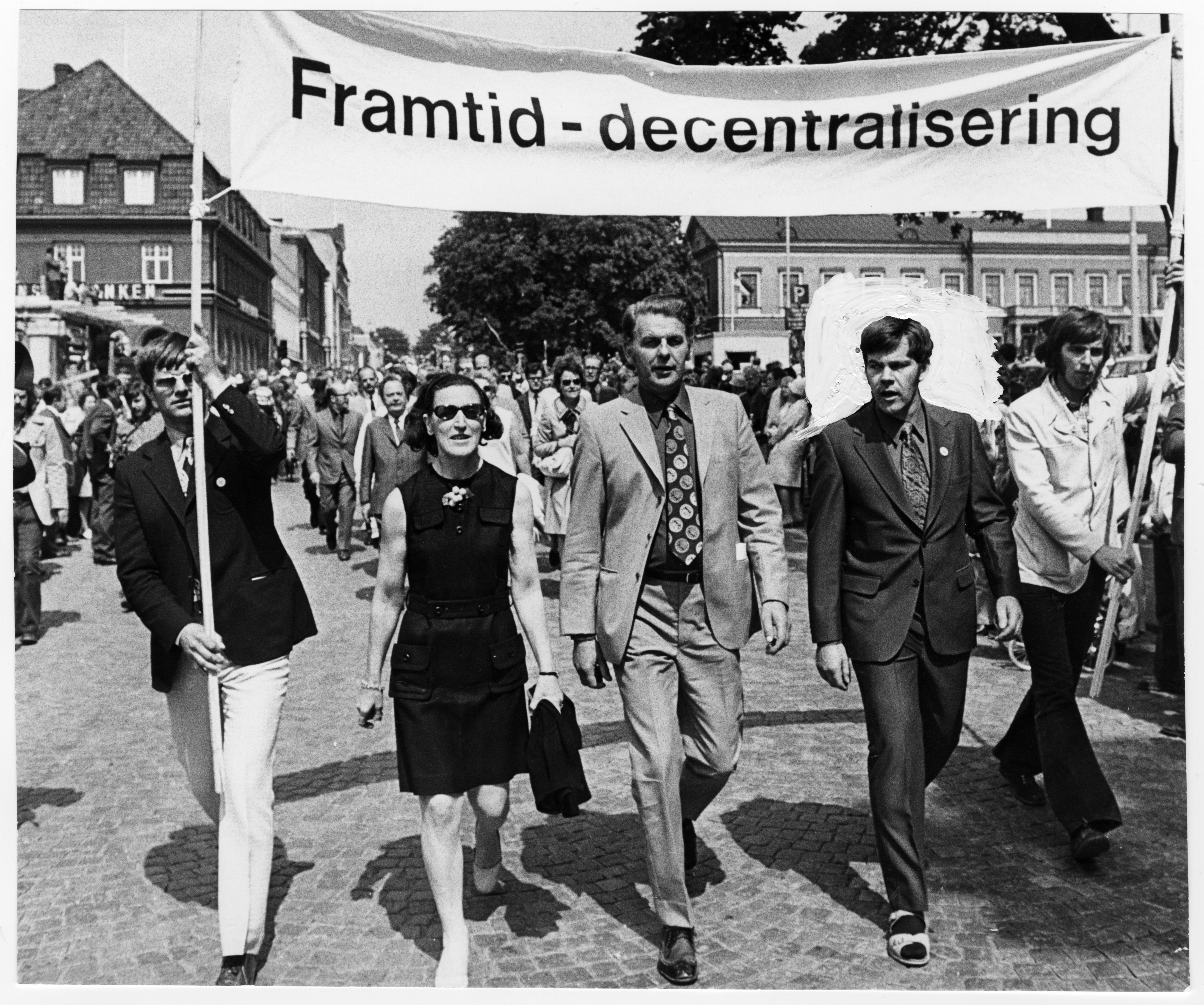 Centerpartiet - Rikstingståget Växjö 1972. Center in gray suit, party chairman Thorbjörn Fälldin; right in dark suit Karl Erik Olsson, chairman for Centre Party Youth. Left in a dark dress, Sonja Fredgardh, chairman for Center Women.